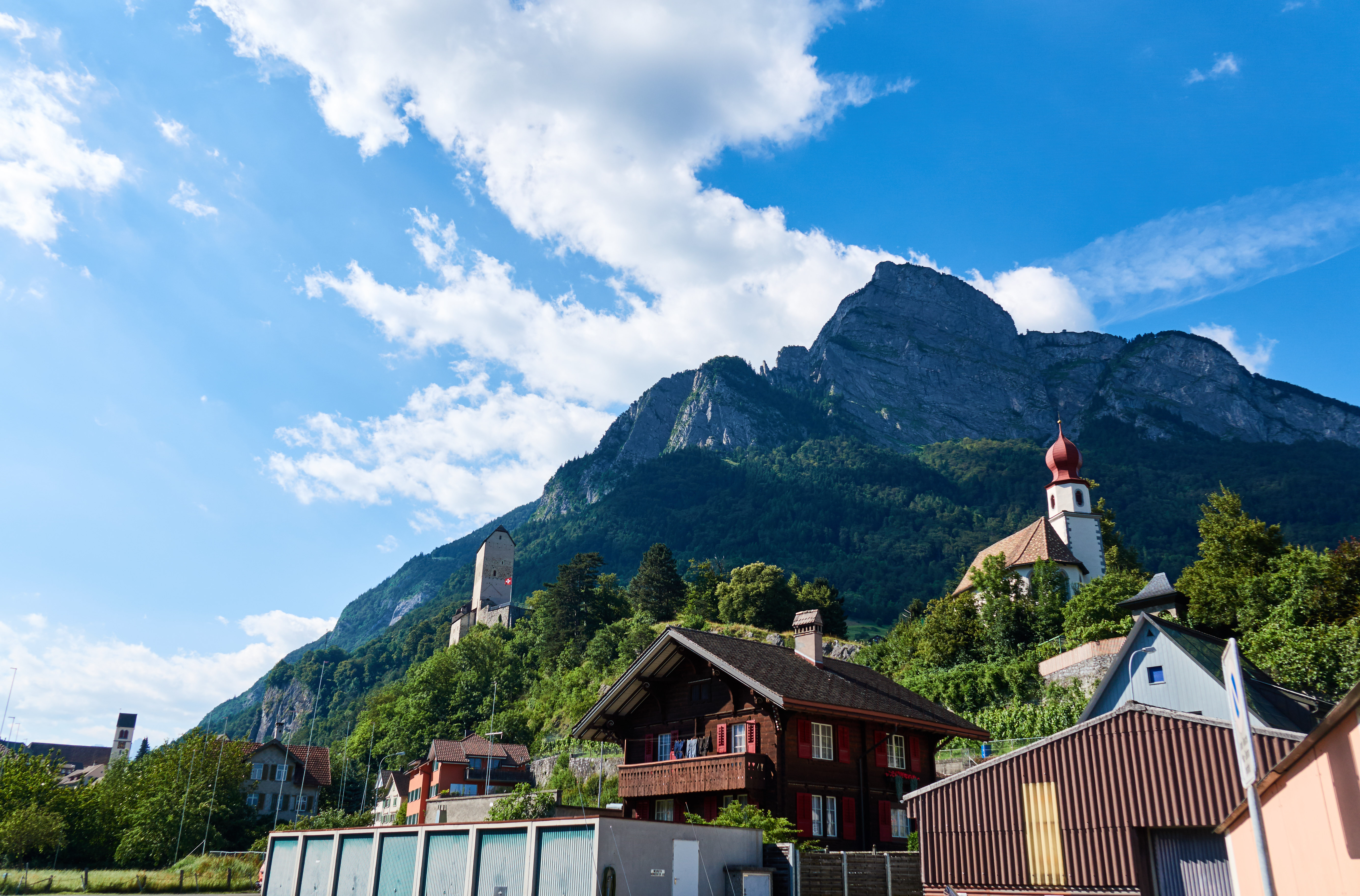 Mt Gonzen photographed from Sargans with Schloss Sargans in the forground.